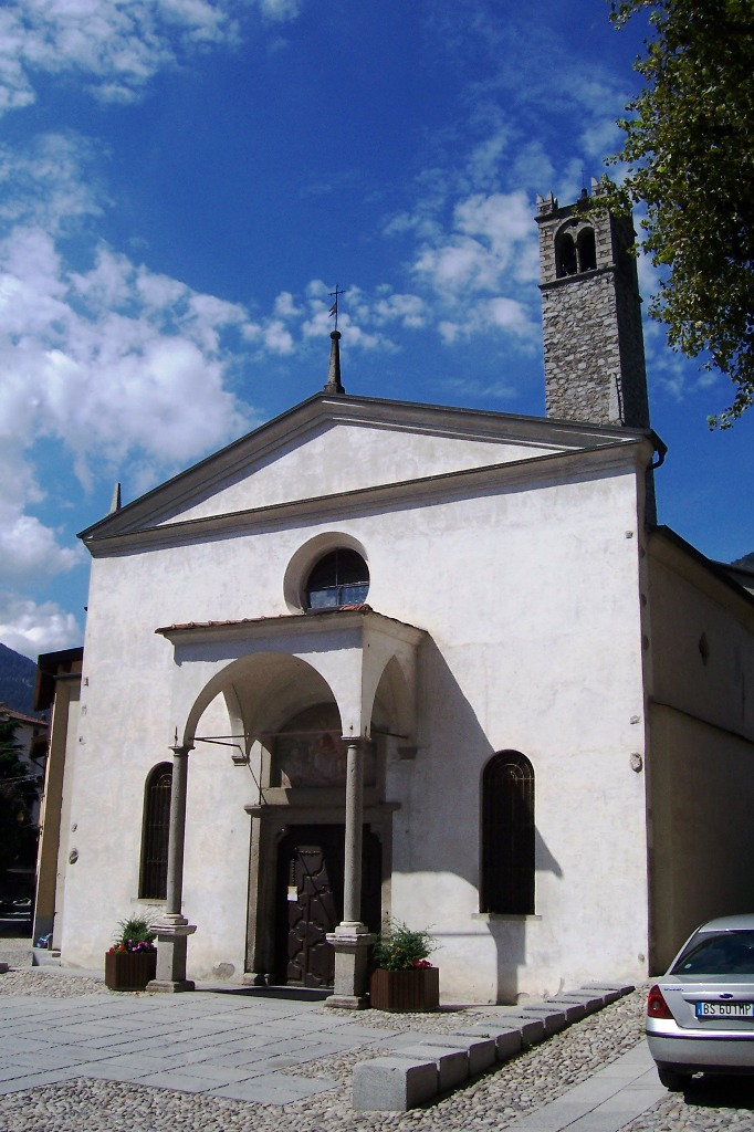 Church of St John the Baptist. Edolo, Val Camonica